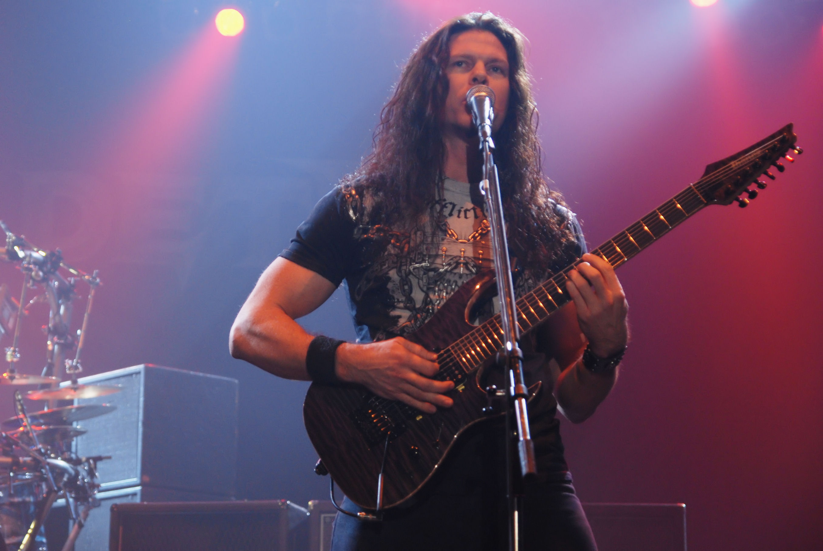 Chris Broderick from Megadeth during Metalmania 2008 festival